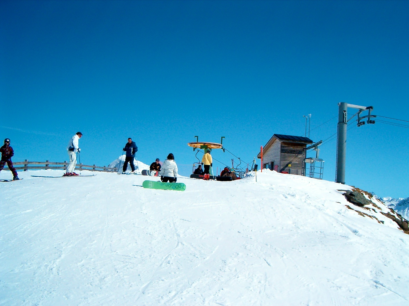 Top of Brüggerhorn chair lift, Arosa